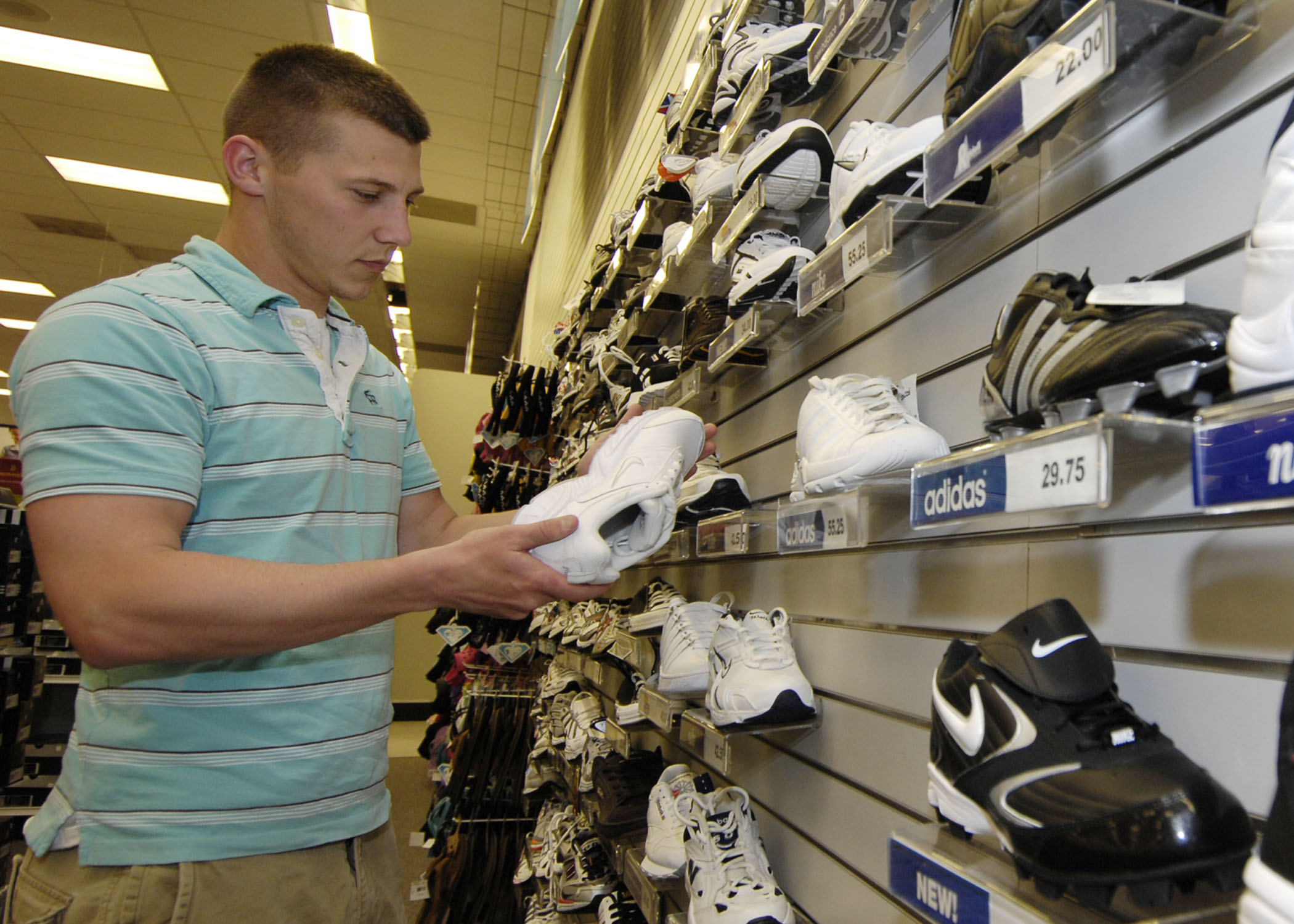 SCOTT AIR FORCE BASE, Ill. -- U.S. Army Spec. Jason Langhauser, 106th Aviation National Guard in Decatur, Ill., shops for the right running shoe at the Scott Base Exchange. (U.S. Air Force photo/Senior Airman Mildred Guevara)